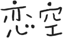 Koizora (恋空) logo.